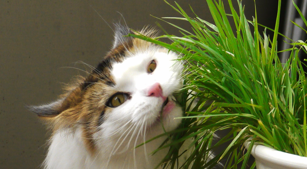 Maine coon munching on cat grass